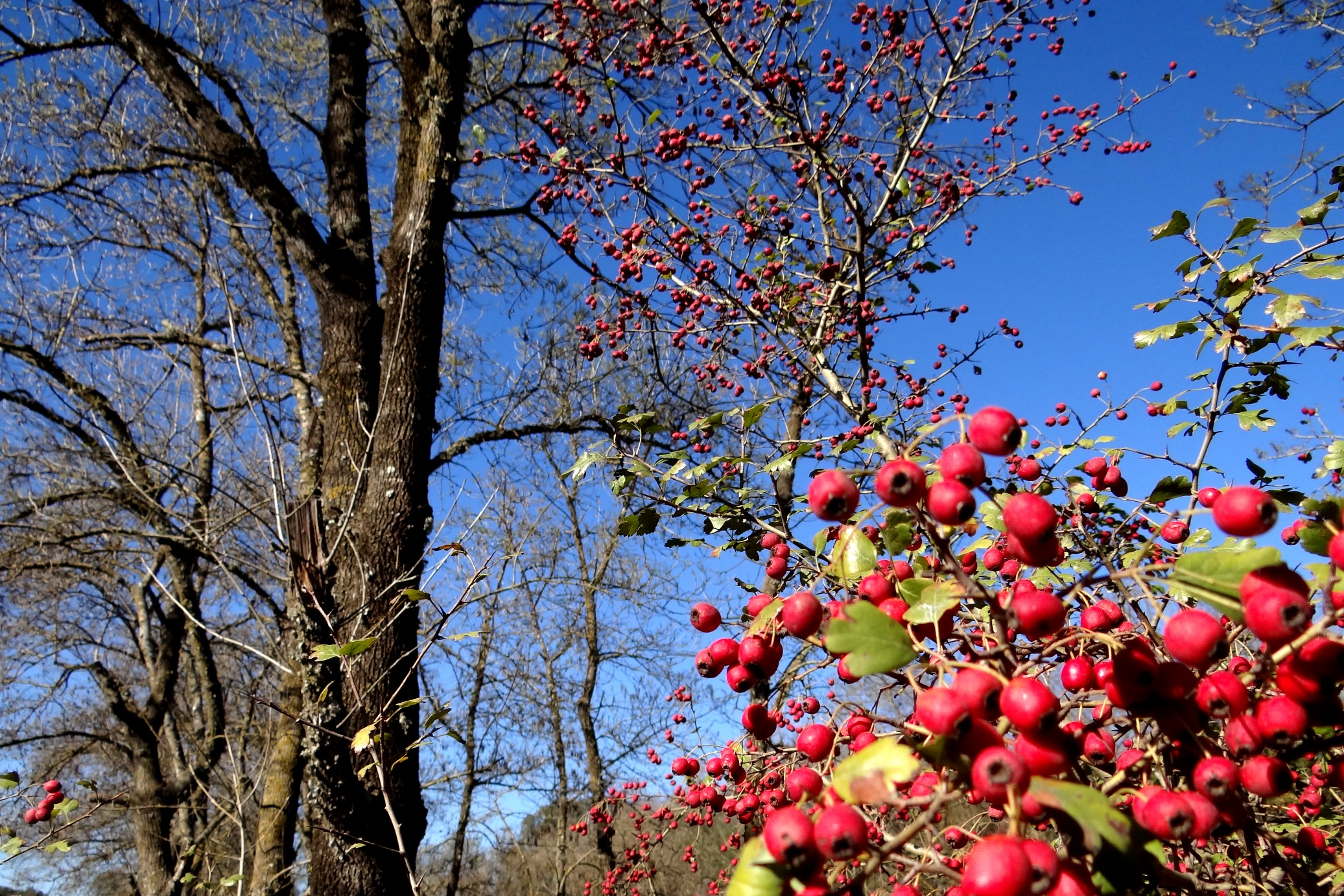 Midland Hawthorn Crataegus laevigata, El Kala National Park, Algeria